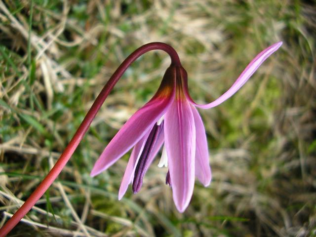 (en) Erythronium dens-canis, a photography originating of the internet site The accord of the autor, H. Brisse, is here. (fr) Erythronium dens-canis, une photographie issue du site internet L'accord de l'auteur, H. Brisse, se situe ici.